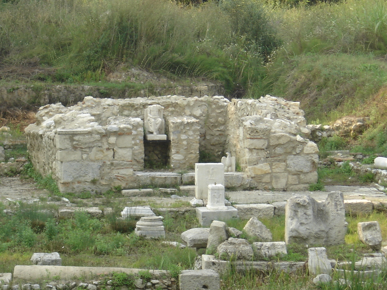 Sanctuary of Zeus, Dion